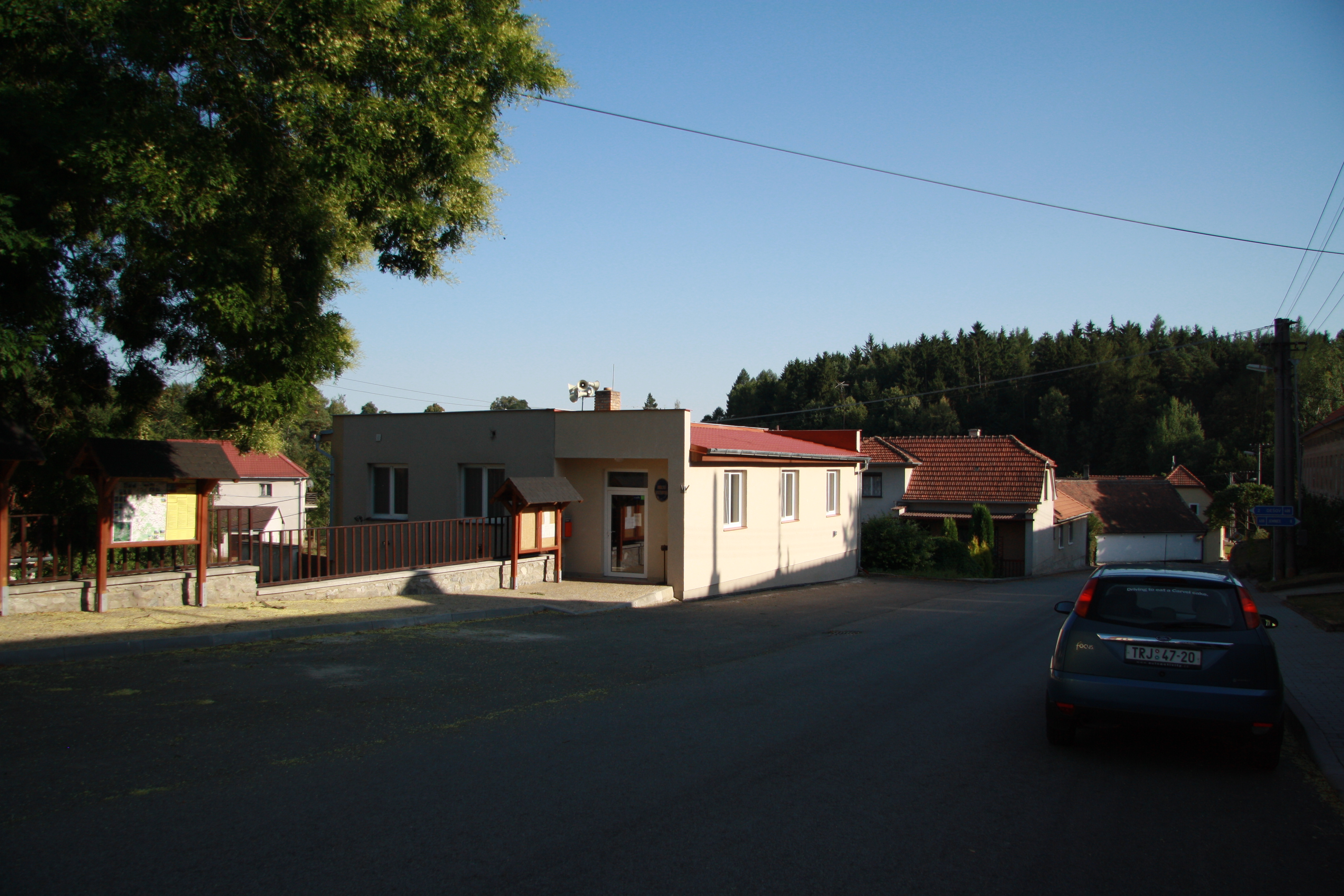 Center of Hornice, Třebíč District.